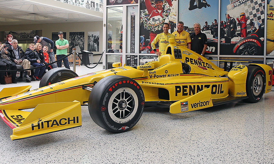 Unveiling of Helio Castroneves' 2016 Indy 500 paint scheme.